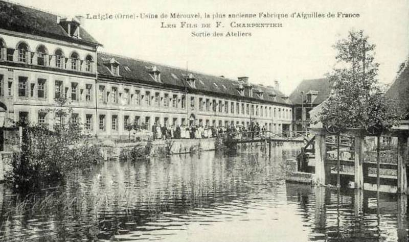 L'Aigle